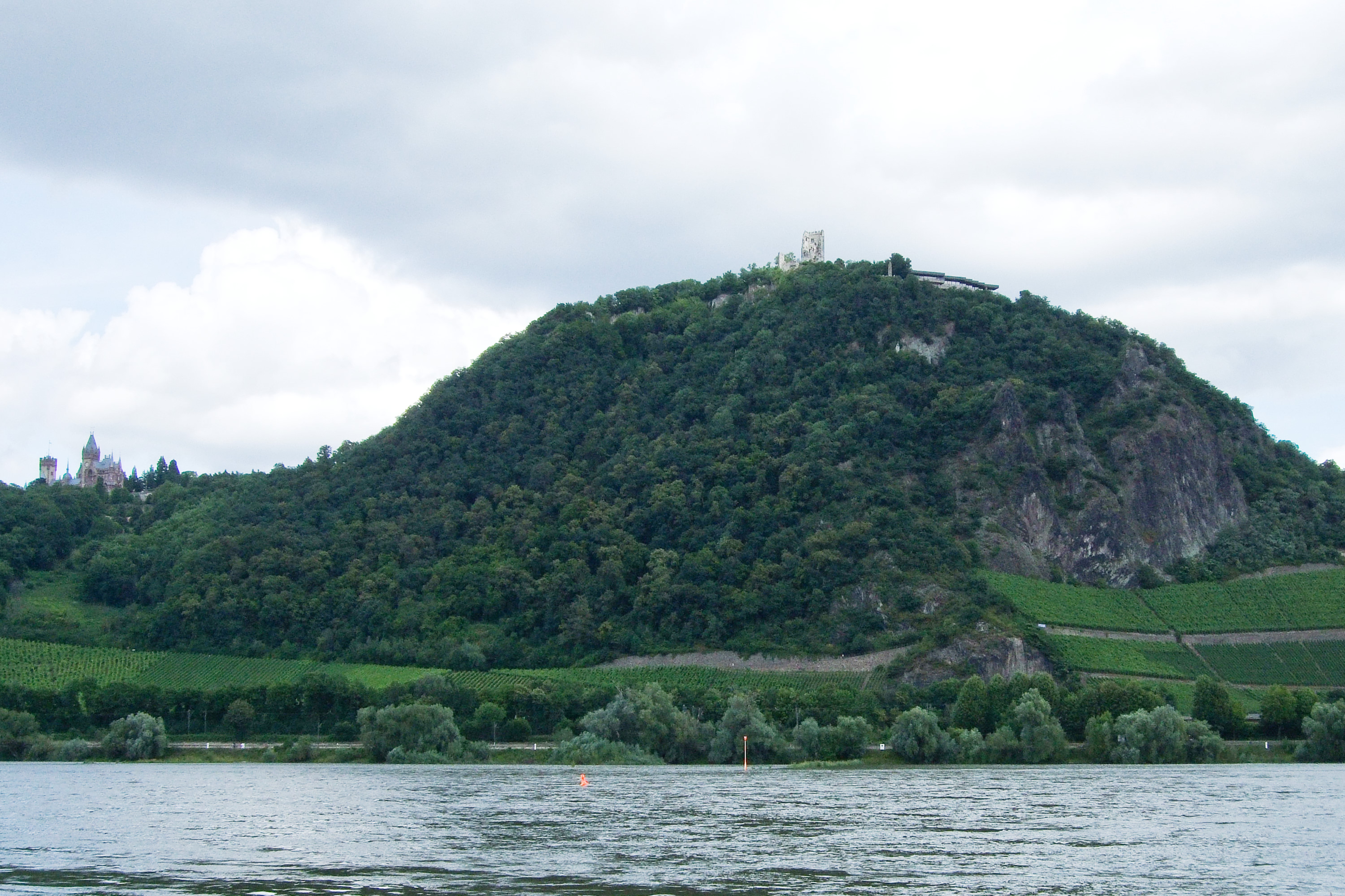 The Drachenfels in the Siebengebirge seen from the other side of the rhine in Bonn-Mehlem.